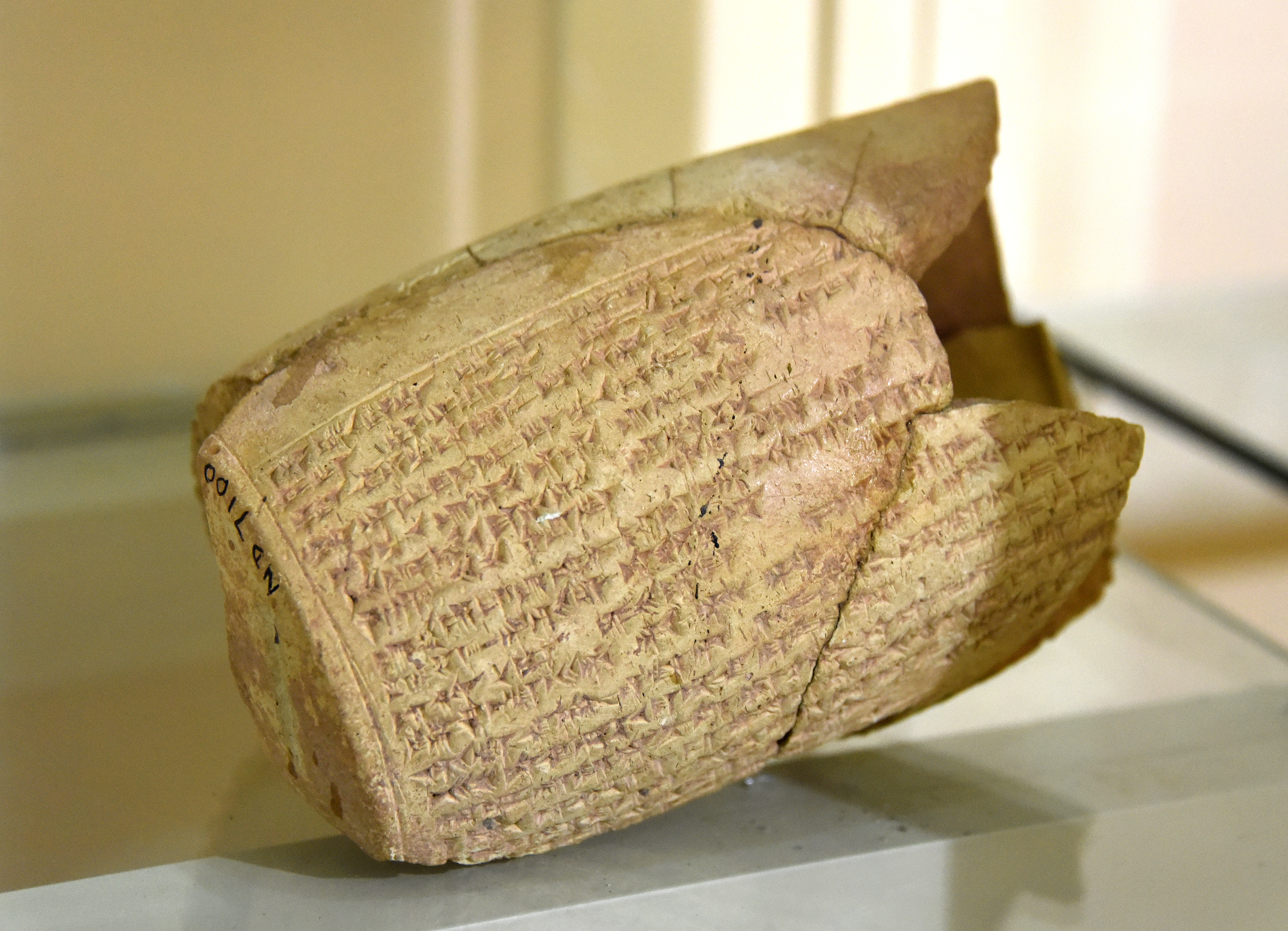 Easarhaddon cylinder from fort Shalmaneser at Nimrud (ND 7100). It was found in the city of Nimrud and was housed in the Iraqi Museum, Baghdad. 7th century BC. Erbil Civilization Museum, Iraqi Kurdistan.